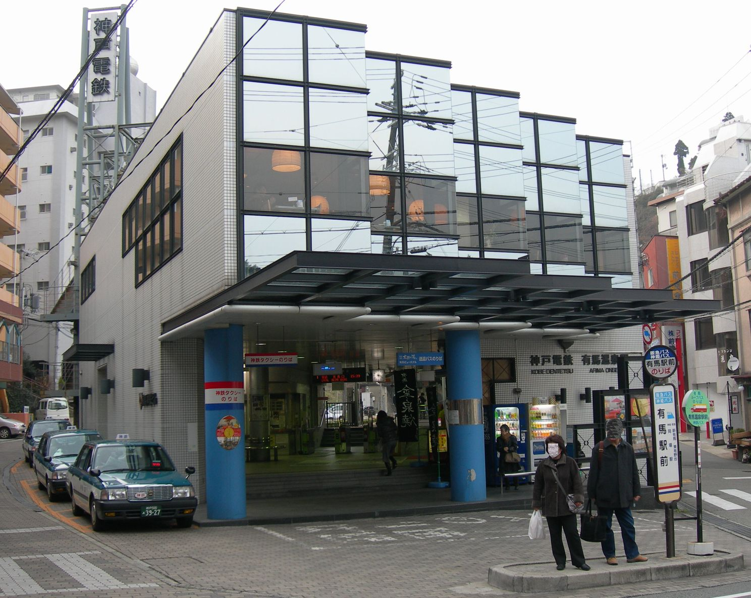 Arima Onsen Station